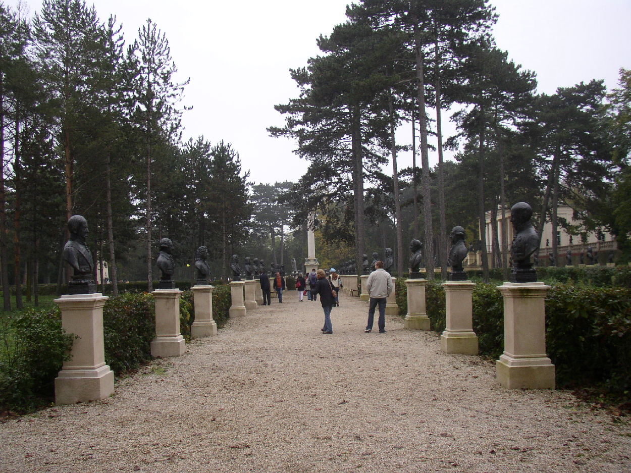 Memorial Site Heldenberg: Alley of emperors